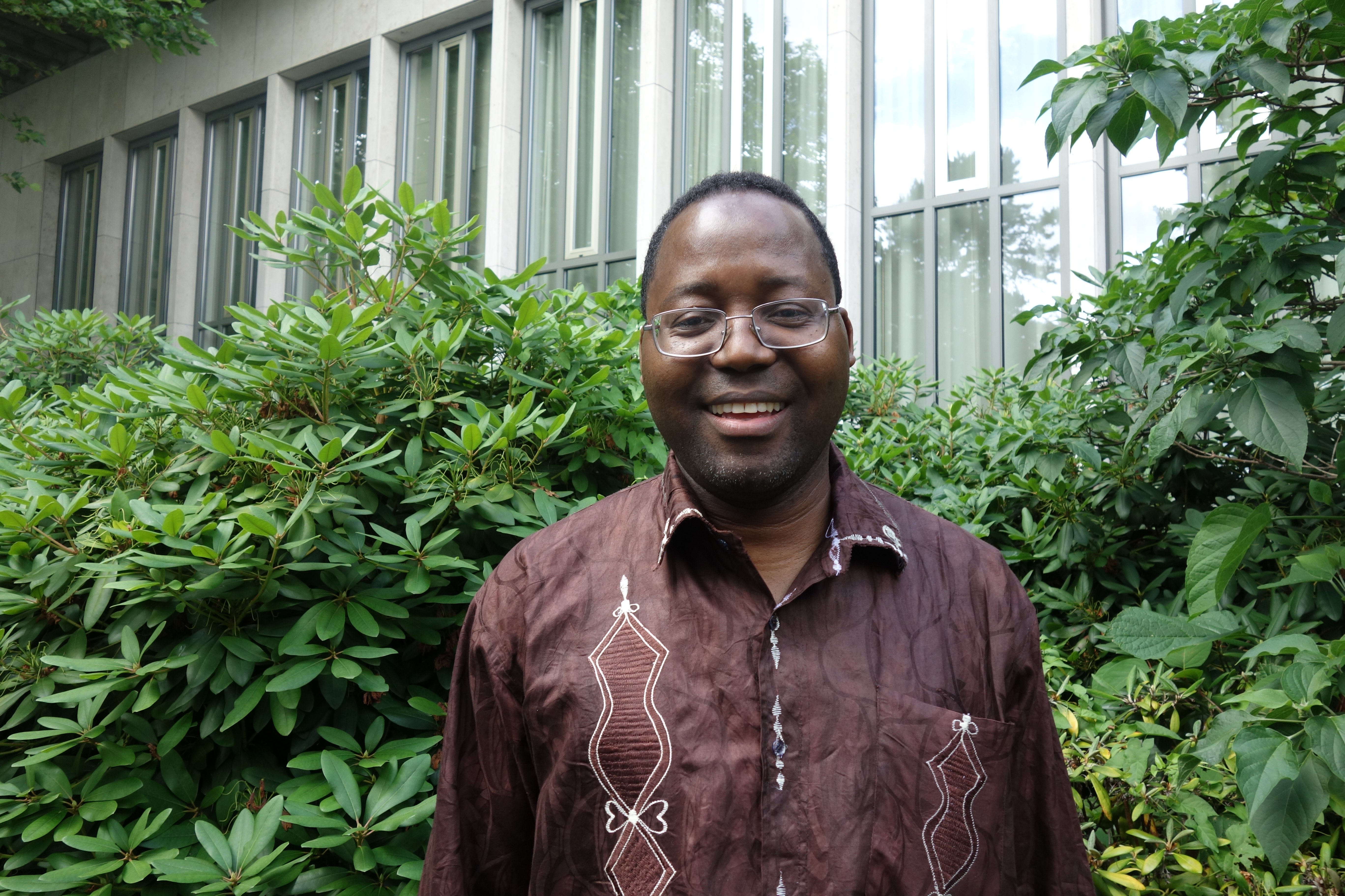 Elisio Macamo at ECAS (European Conference on African Studies) in Basel, July 2017